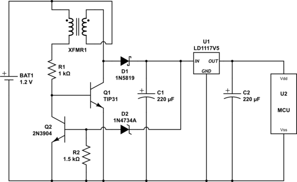 Regulated Joule Thief circuit with closed-loop control and low drop out secondary regulator to power some voltage ripple sensitive circuit, like a microcontroller.